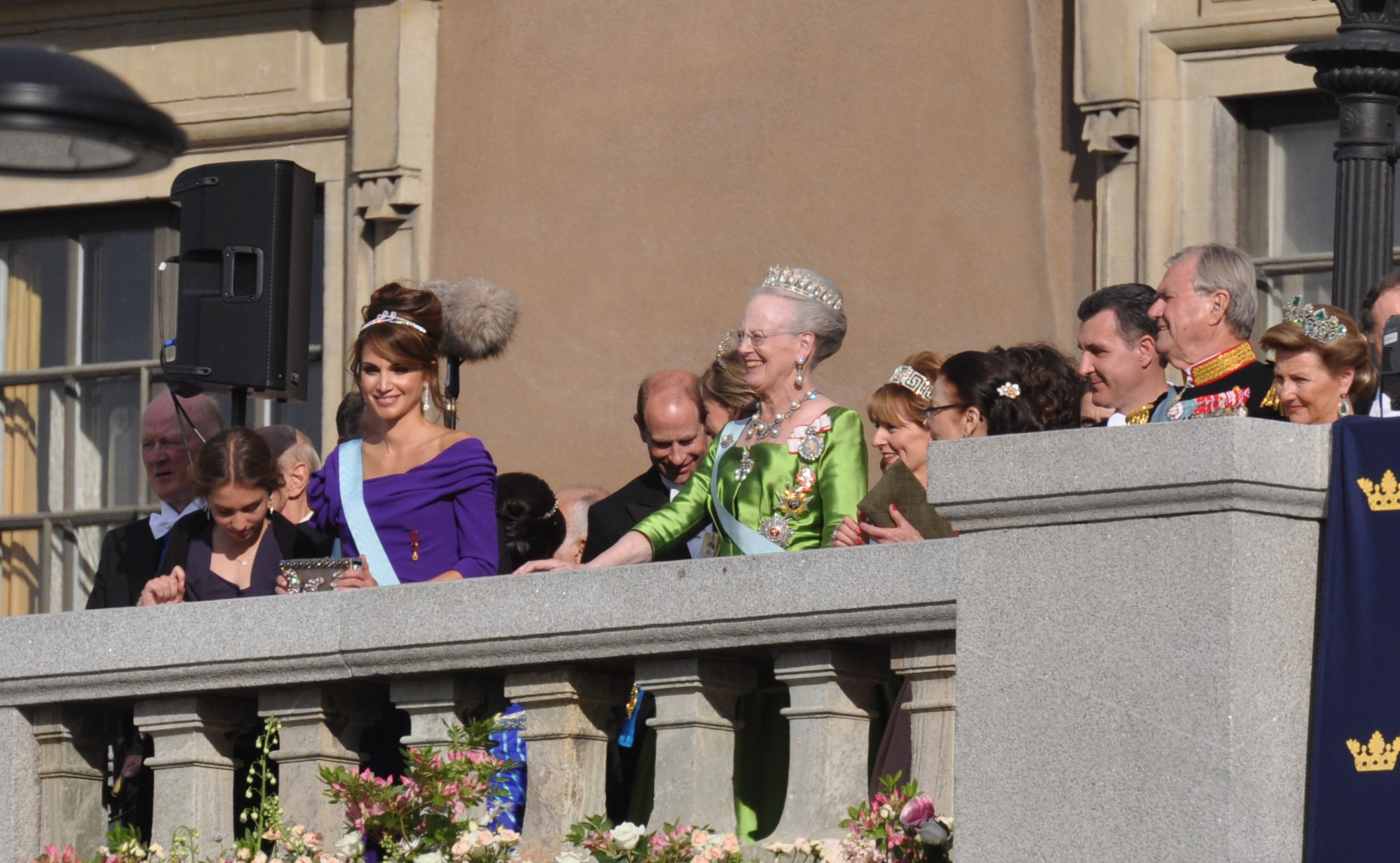 Wedding of Victoria, Crown Princess of Sweden, and Daniel Westling. The Couple at Lejonbacken, guests at the terrace.